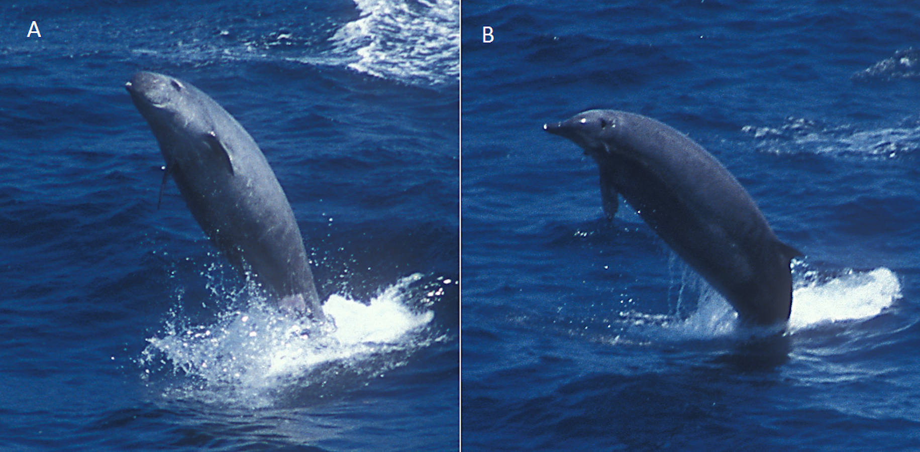 True’s beaked whales sometimes breach and this gives observers a better opportunity to identify the species. Here, the two little white dots in the front of the beak show that this animal is a male True´s beaked whale. Females do not have erupted teeth and males of other similar beaked whale species have the teeth in different positions along the mouthline.